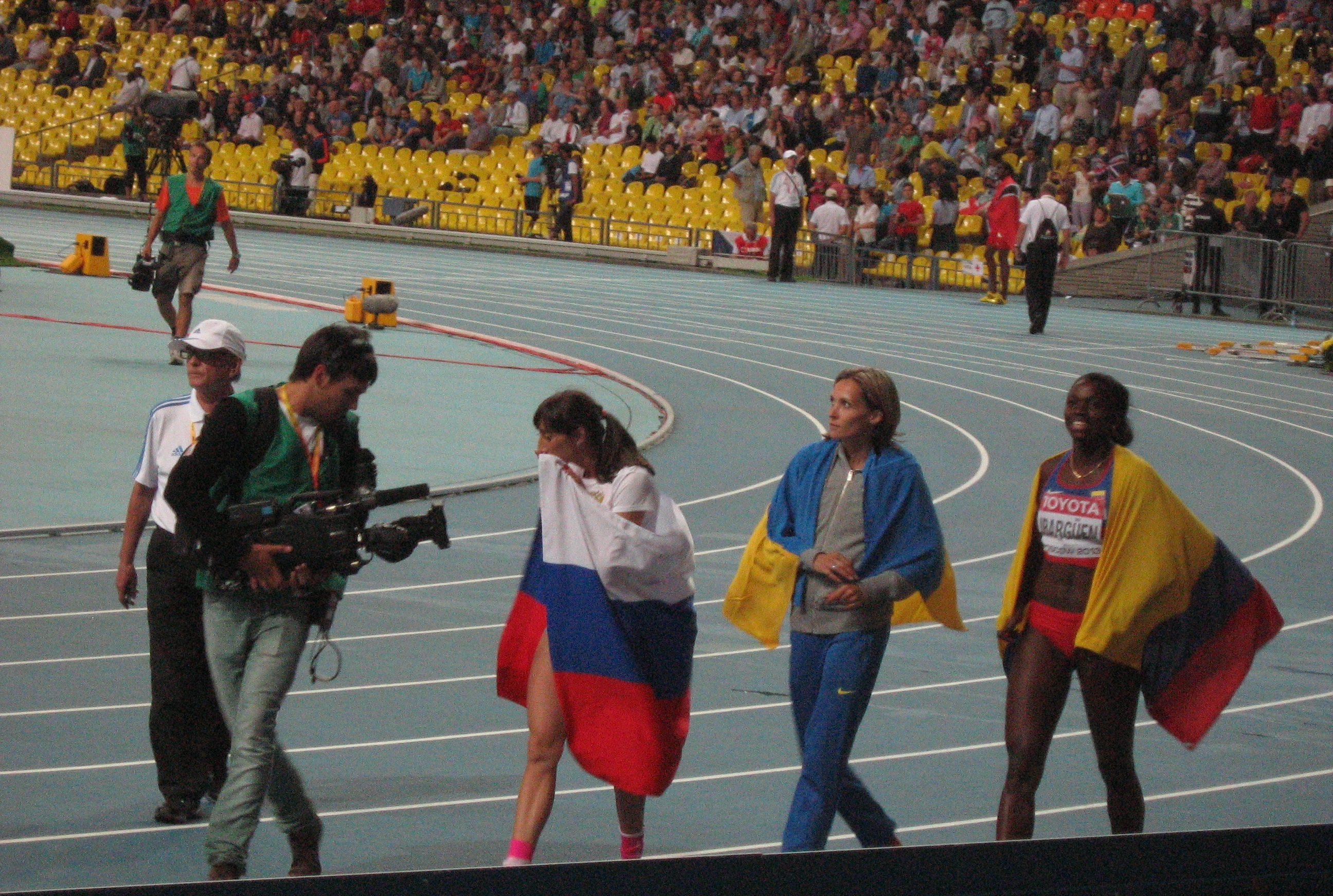 The fifth day of the World Championships in Athletics in Moscow 2013